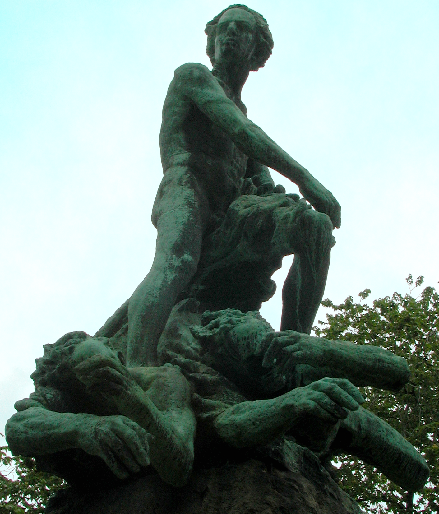 Monument to the Norwegian mathematician Niels Henrik Abel by sculptor Gustav Vigeland in Oslo, Norway